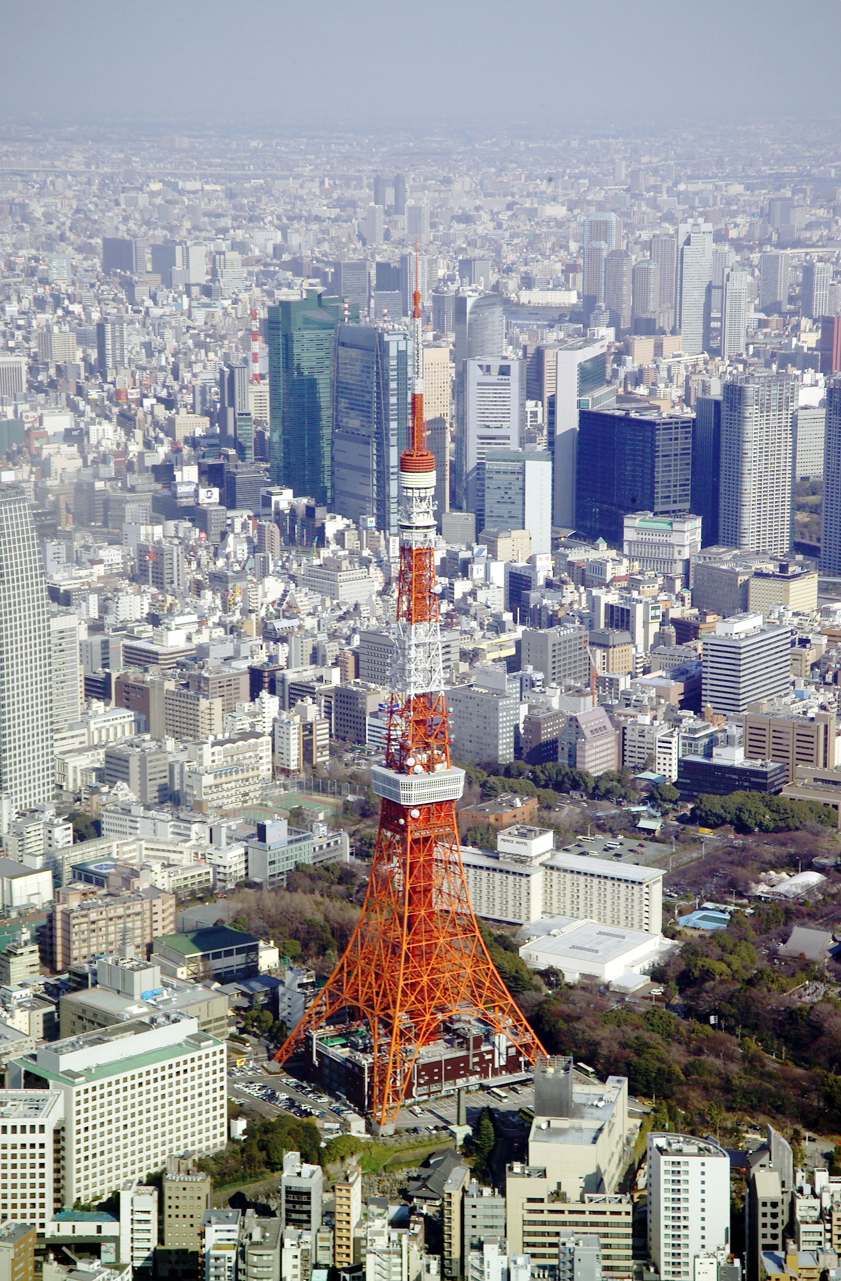 The steel tower in this photograph is Tokyo Tower in Minato, Tokyo, Japan. Nearby buildings are in and near Roppongi. I took this photo.